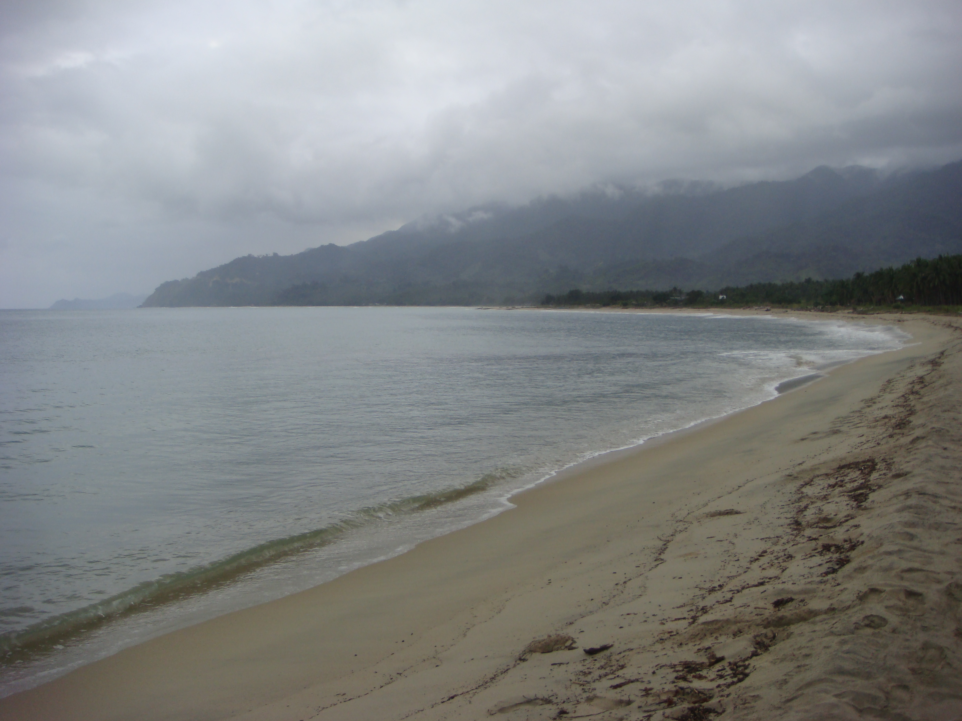 Dinadiawan, Dipaculao, Aurora[1] white beach (a long stretch of clean, fine, golden white sand coastline) is one of the most beautiful beaches in Aurora, with a fabulous view of the Pacific Ocean, the lush, diverse forests of the Sierra Madre Mountain Range, and the rock formation along the shoreline (along the Dicadi Highway);[2](situated north of Baler thru the Dicadi highway, between Luzon’s Sierra Madre Mountain Range & the Pacific Ocean; almost 2 hours away from Aurora’s capital town, Baler)